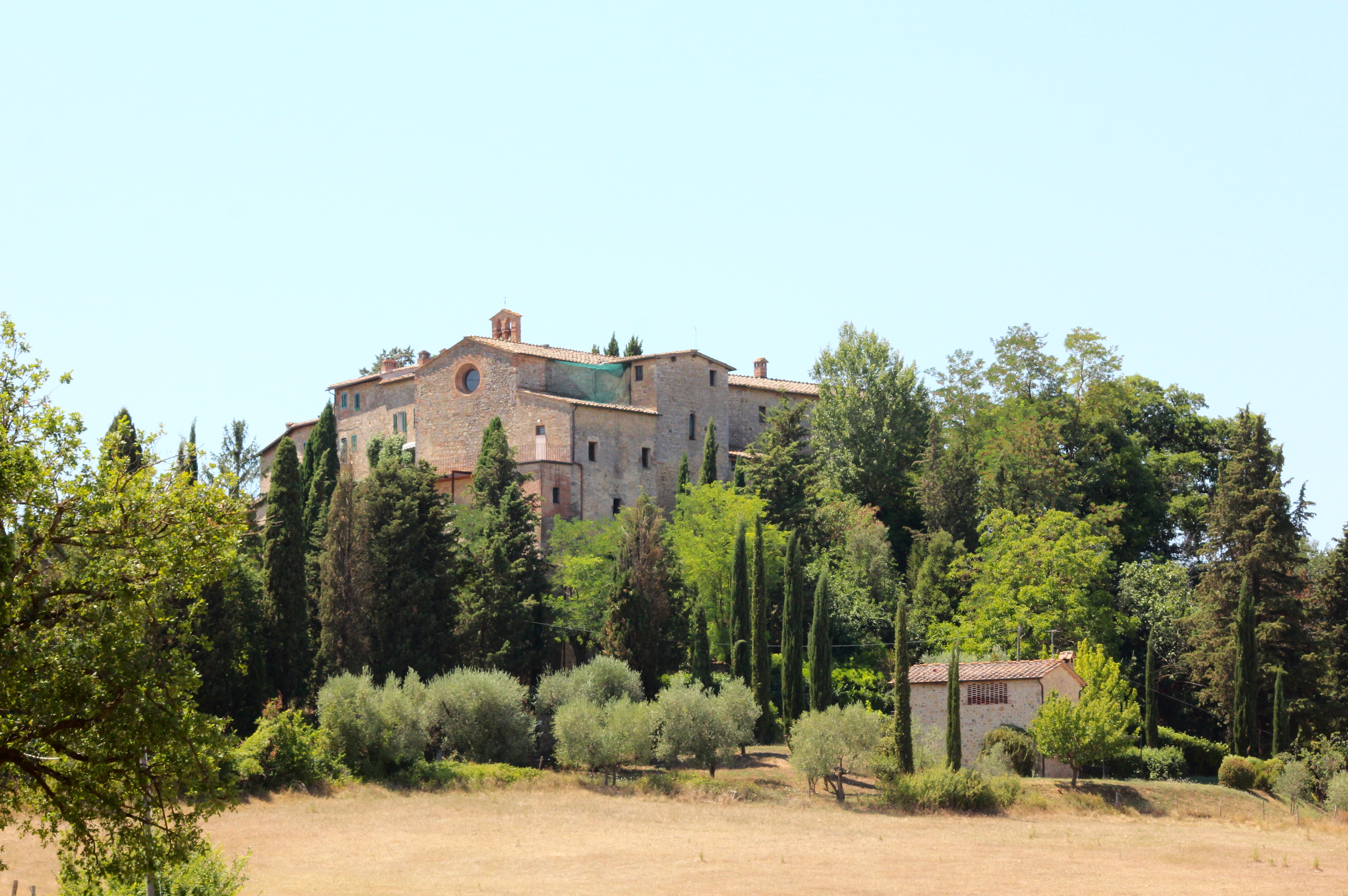 Basciano, hamlet of Monteriggioni, Province of Siena, Tuscany, Italy